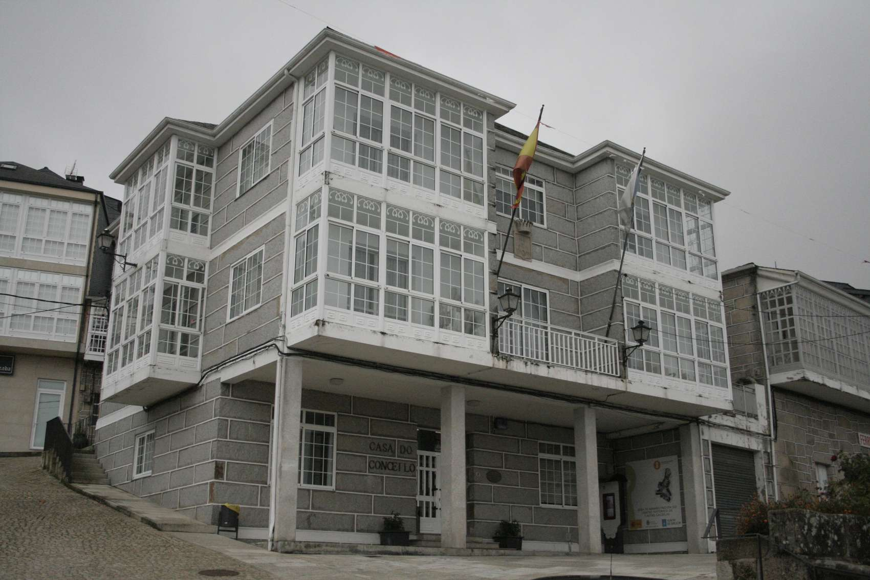 Town Hall in Castro Caldelas (Spain)